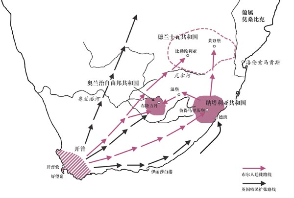 The moving of Boer people in 19th centery